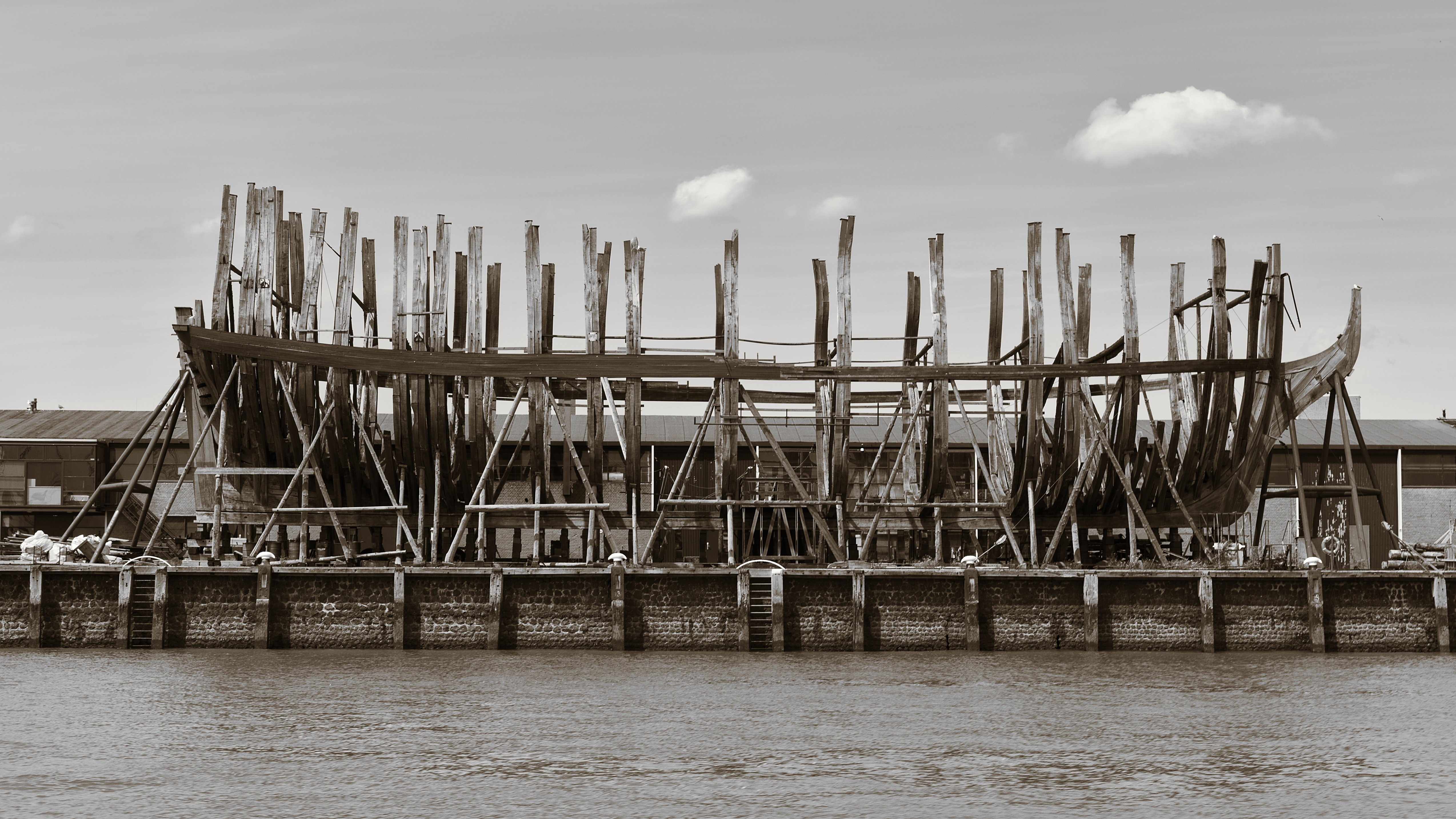 Flickr caption: "Delft", a replica of a war ship, sunk in 1797. The wharf ( "De Delft") was a learning and re-integration project, but was abandoned due to lack of funds, unfortunately.